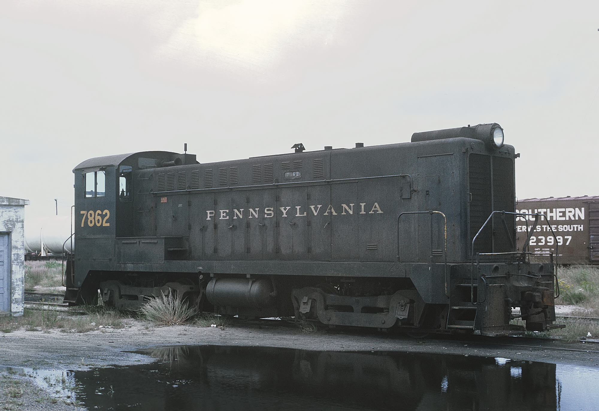 A Roger Puta photograph